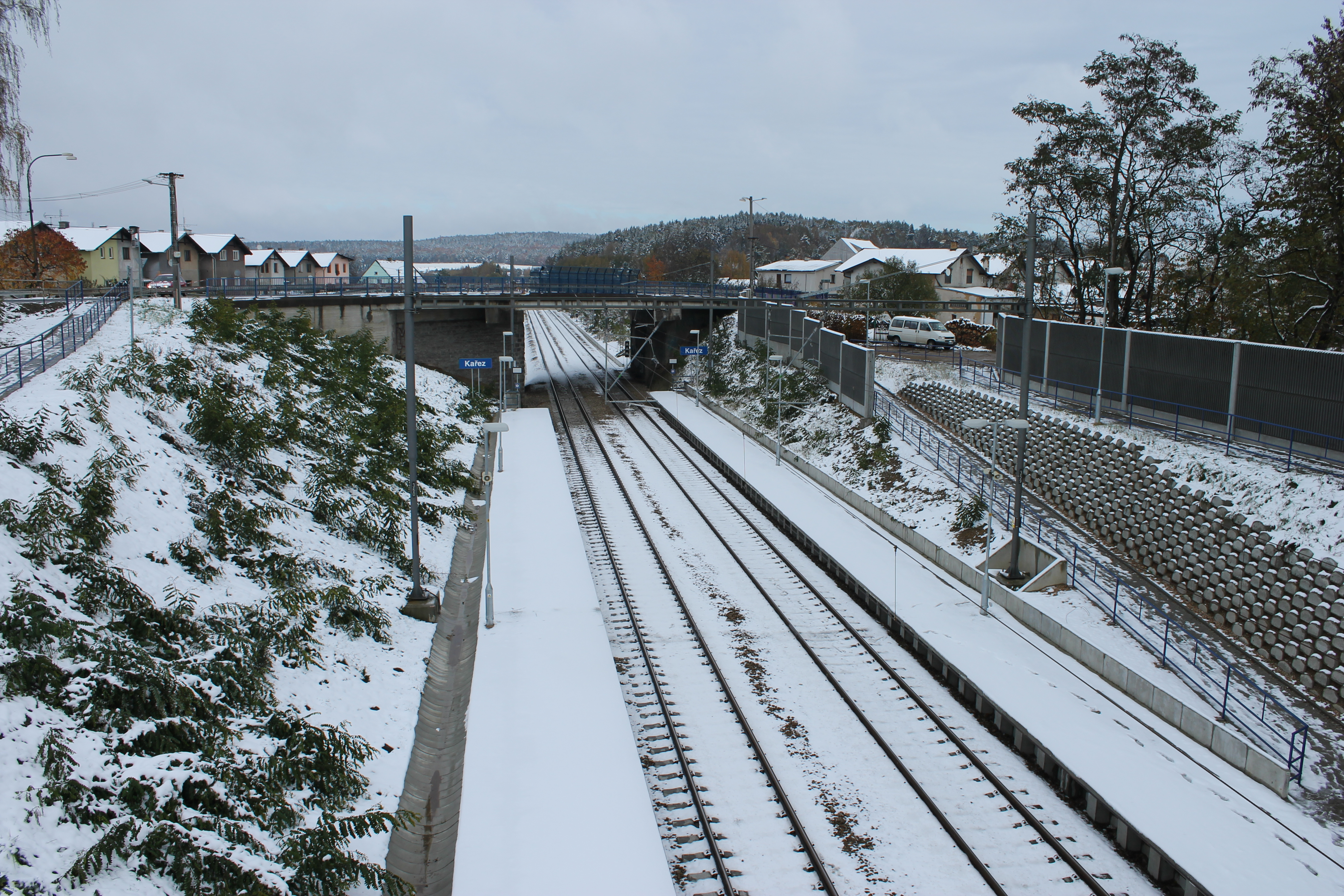 View of Kařez railway stop, to Prague